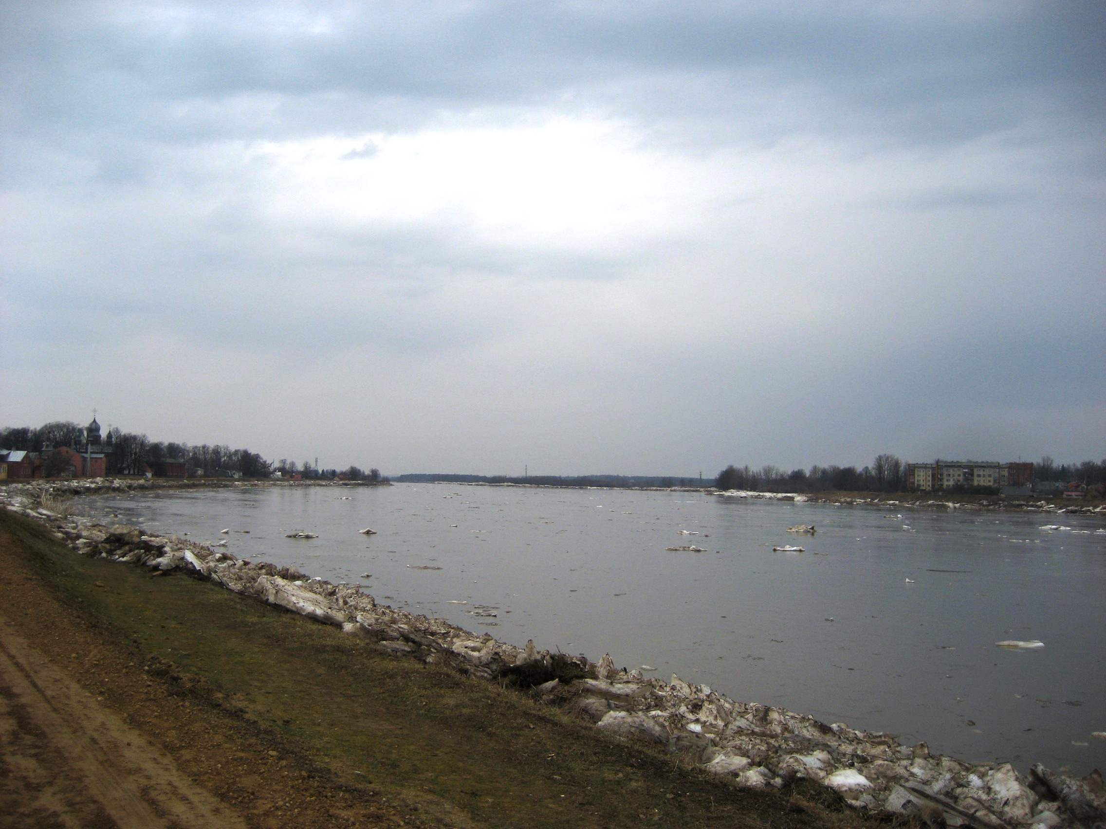 River Daugava in Jēkabpils